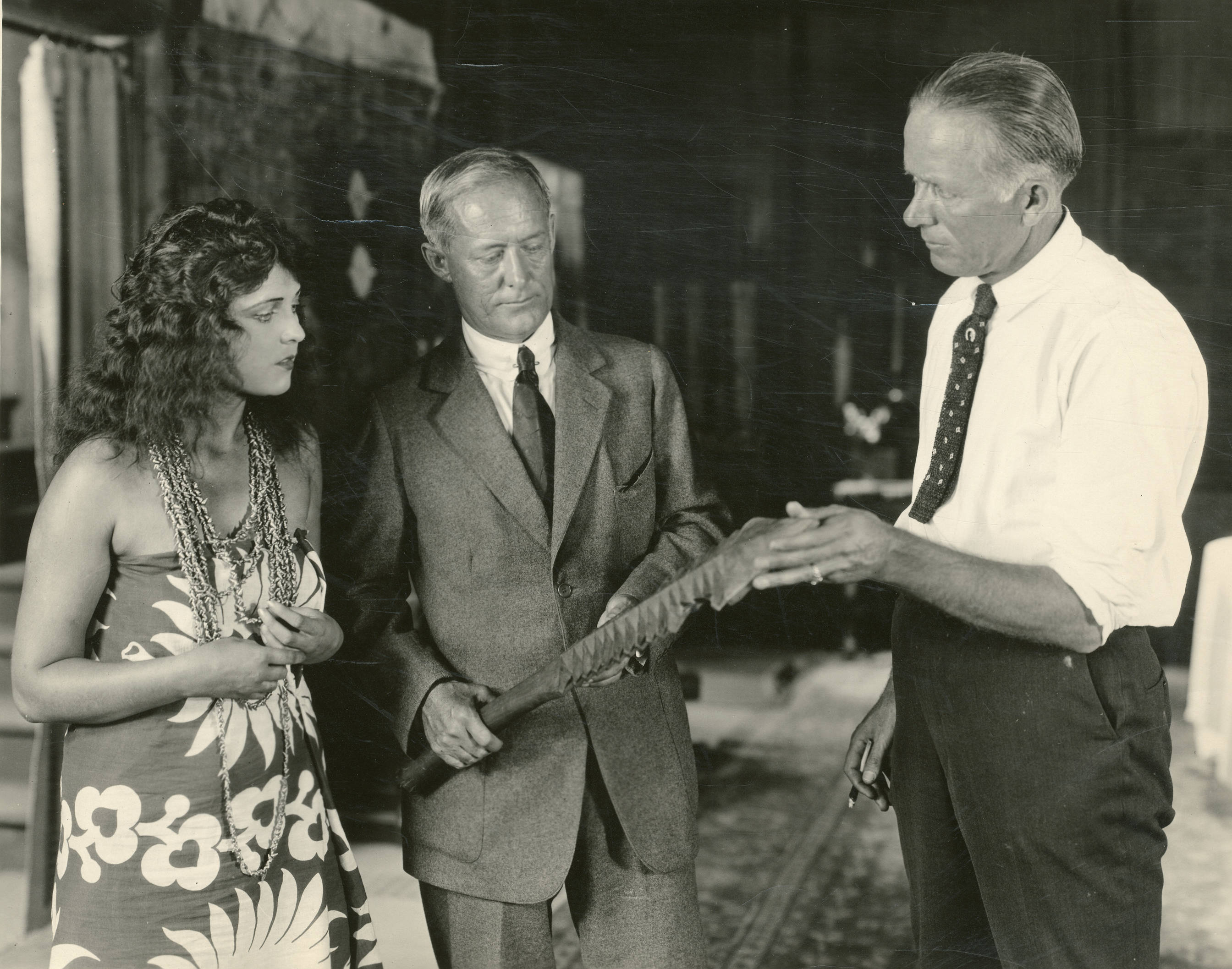 Photo of Jacqueline Logan, South Seas journalist Frederick O'Brien, and director George H. Melford, production still from the American film Ebb Tide (1922). Subjects: actresses, actors